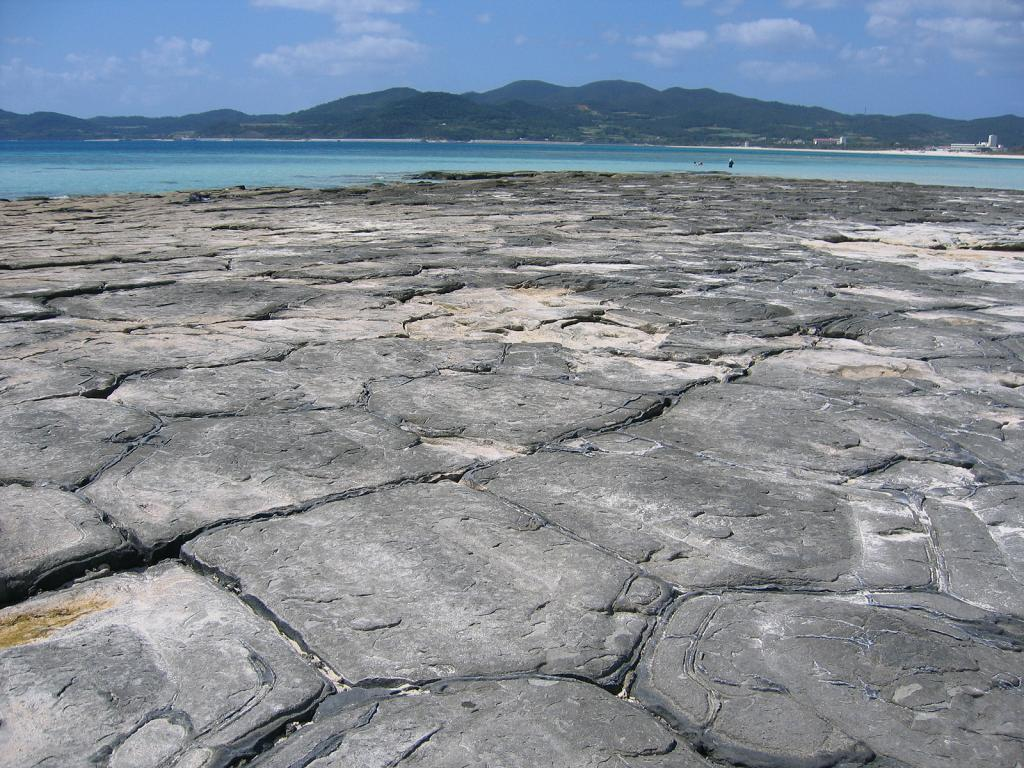 Tatami Rock, Kumejima island, Shimajiri district, Okinawa Prefecture, Japan.)